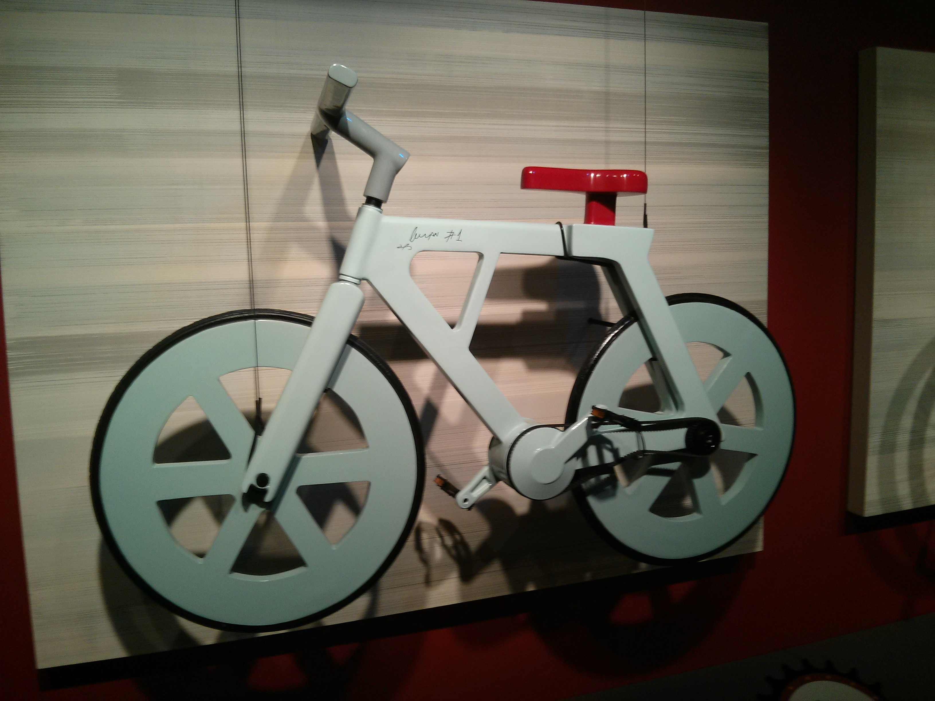 I.G. Cardboard Technologies cardboard bicycle at the Museum of Science and Industry.